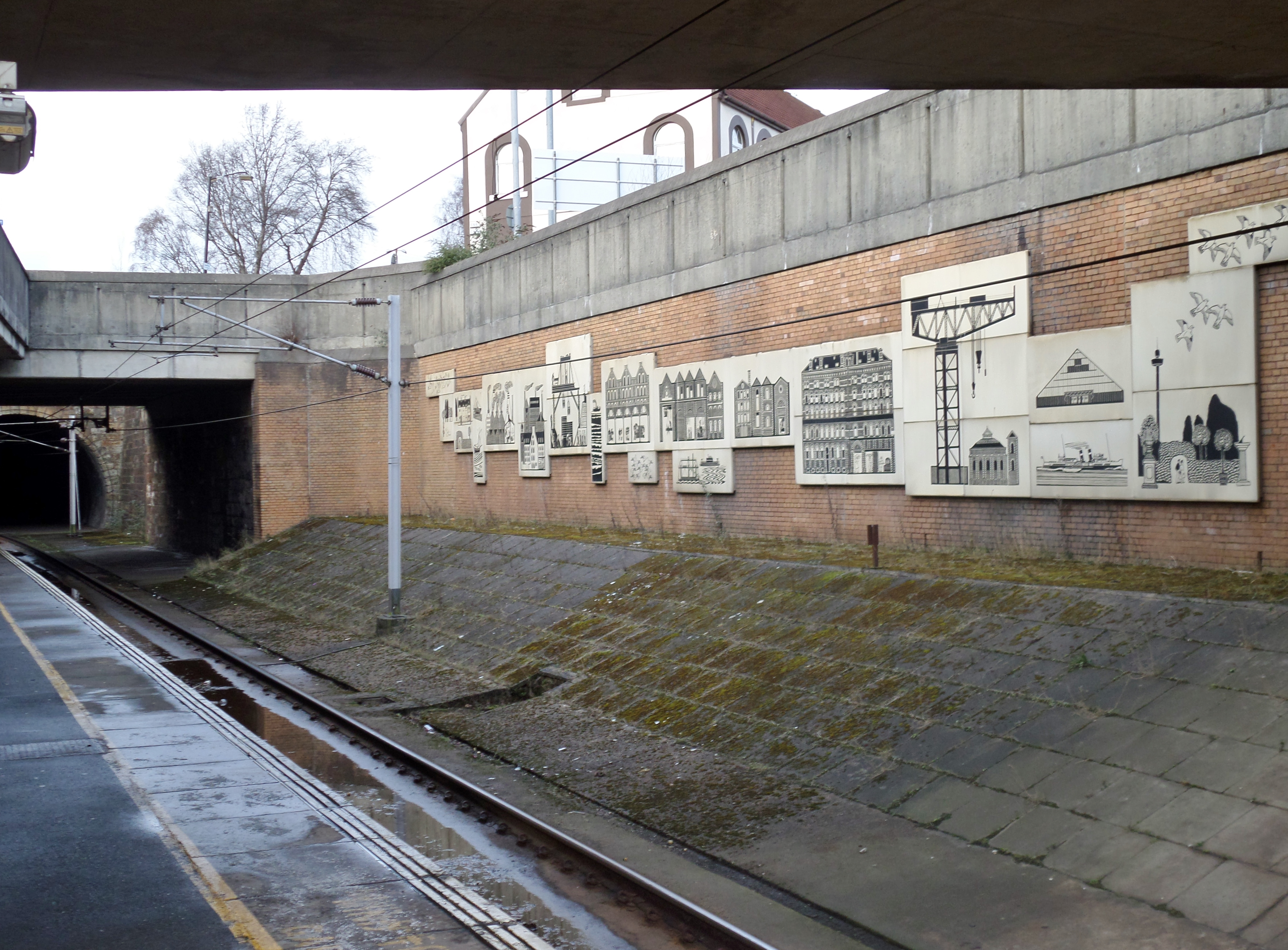 Exhibition Centre railway station - murals from the platform level. View west.